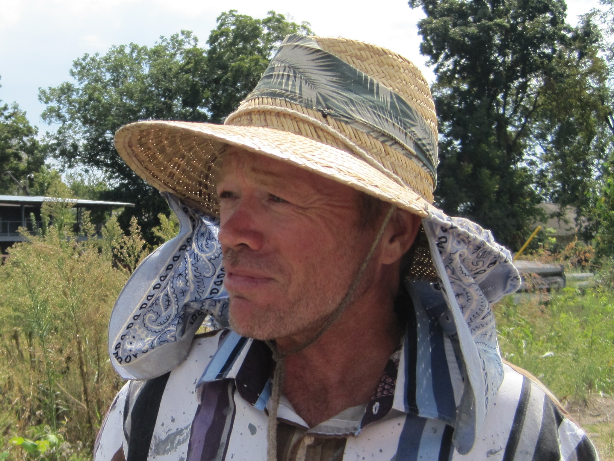 The Mindfield. Billy Tripp, outsider artist and creator of "The Mindfield" talking about his work. Brownsville, Tennessee. Photo taken with permission.